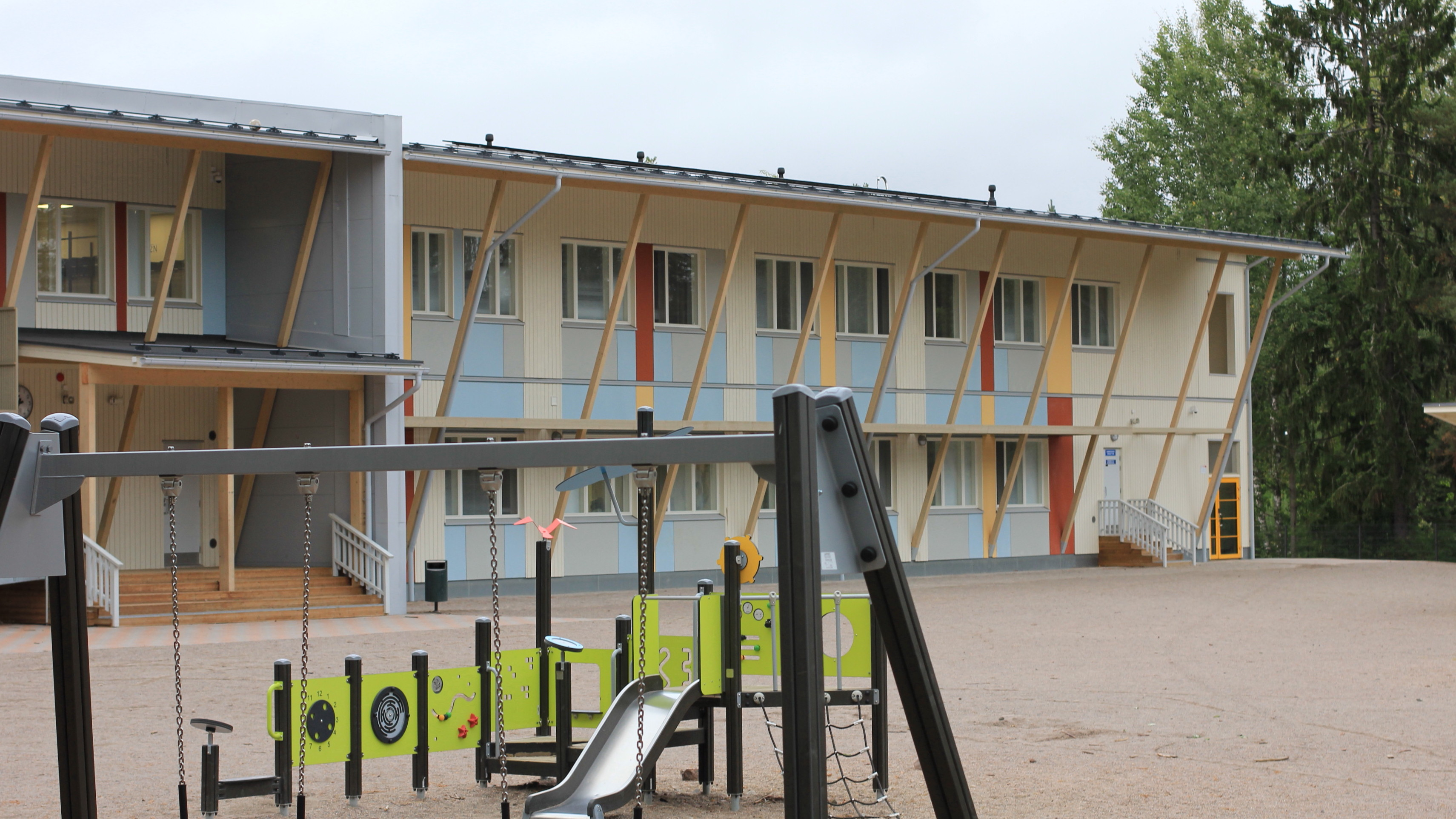 Niipperi primary school, Espoo, Finland. - Seen from school yard, southwest.